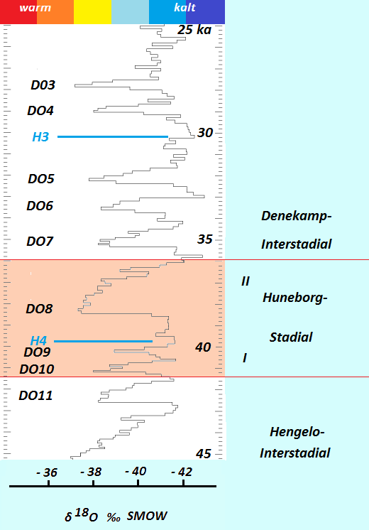 The Huneborg Stadial (marked in red) in its temporal context 25 to 45 ky BP. The GISP 2 oxygen isotope curve is from Wolfgang Weißmüller. Also indicated are the positions of the Dansgaard-Oeschger events DO 3 til DO10 and the Heinrich events H3 and H4 (in blue).